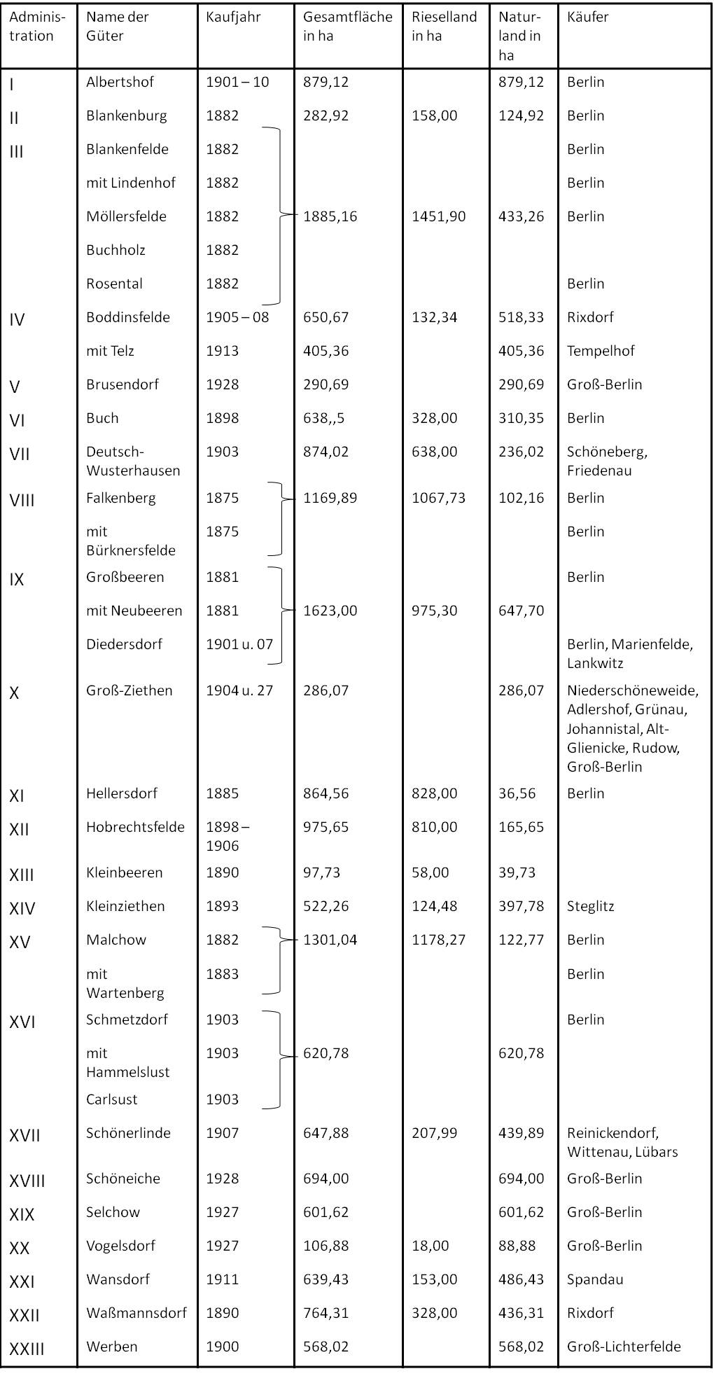 The table shows, which manors were farmed by the citiy of Berlin itself in 1928, the year of purchase, the purchaser and their size in ha.